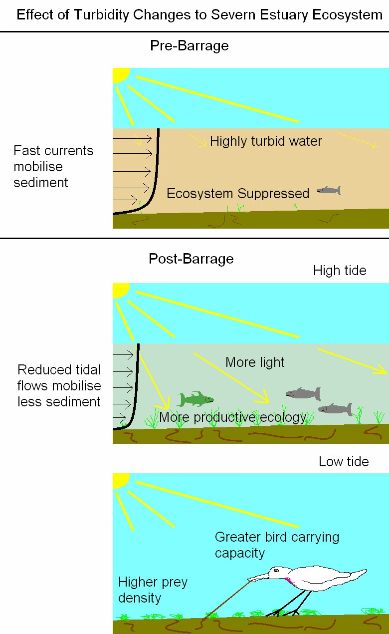 My sketch based on the presentation by Kirby, R. (20th November 2006) “Environmental similarities and contrasts between the La Rance and (potential) Severn Barrages” (conference Presentation) Renewable Energy and the Nuclear Debate, Cardiff County Hall, Symmons Madge Associates. Futher references, should the reader be interested, that support the mechansims this image suggests include; 1. Goss-Custard, J.M. Warwick, R.M. Kirby, R. McGrorty, S. Clark, R.T. Pearson, B.Rispin, W.E. Le V.Dit Durrell, S.E.A. Rose R.J. (1991) “Towards predicting wading bird densities from predicted prey densities in a post-barrage Severn estuary” Journal of Applied Ecology 28, pp. 1004-10026 2. Warwick, R., Henderson, P.A., Fleming, J.M. and Somes, J.R. (2001) “The impoverished Fauna of the deep water channel and marginal areas between Flat Holm island and King road, Severn estuary” Plymouth Marine Laboratory / Pisces Conservation Ltd 3.Kirby, R, Henderson, P.A. and Warwick, R.M. (2004) “The Severn estuary UK: Why is the estuary different” Journal of marine science and the environment; 2 pp.3-17